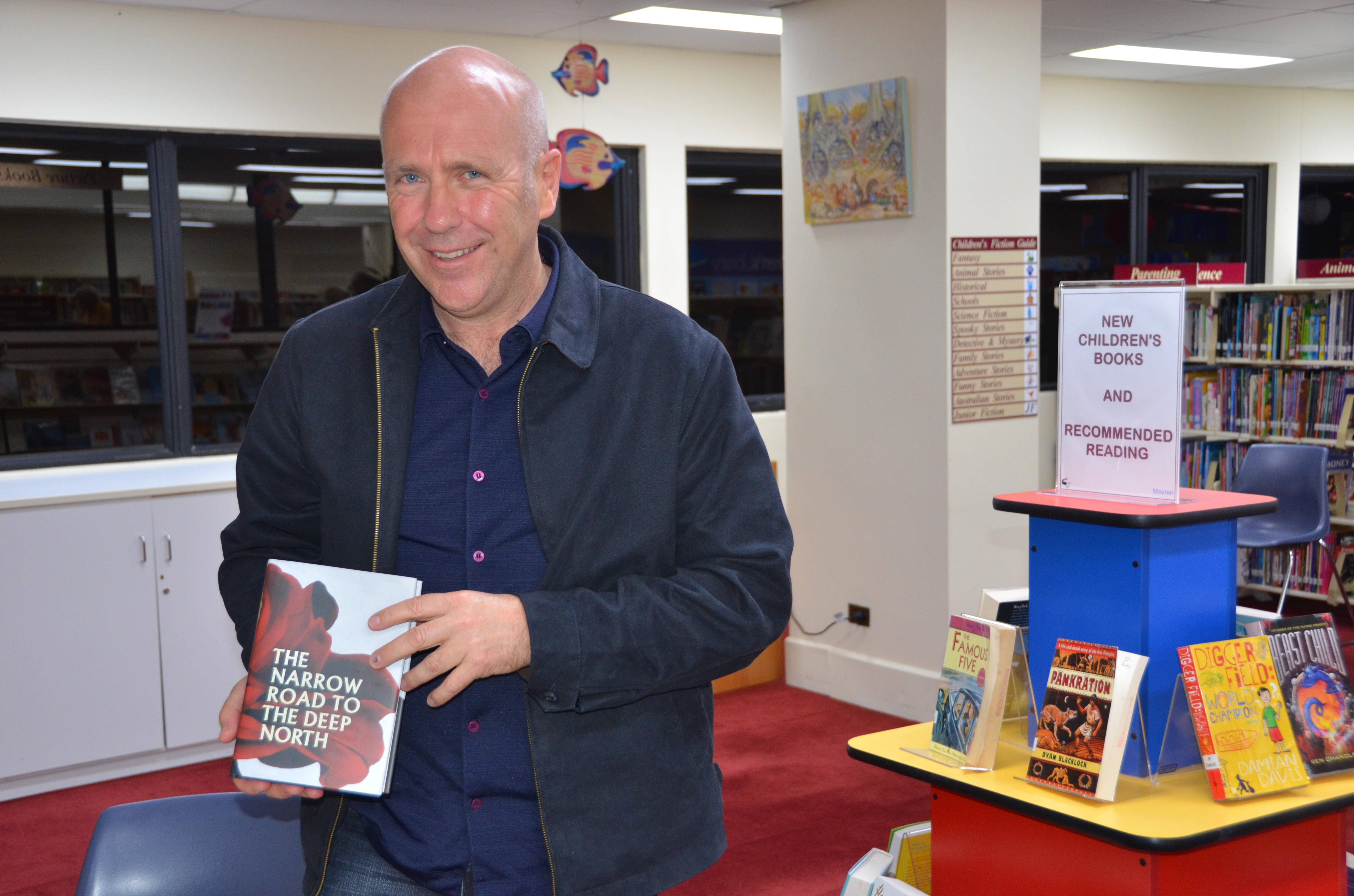 Australian author Richard Flanagan with a copy of his 2013 novel The Narrow Road to the Deep North, at Mosman Library, Sydney in October 2013.